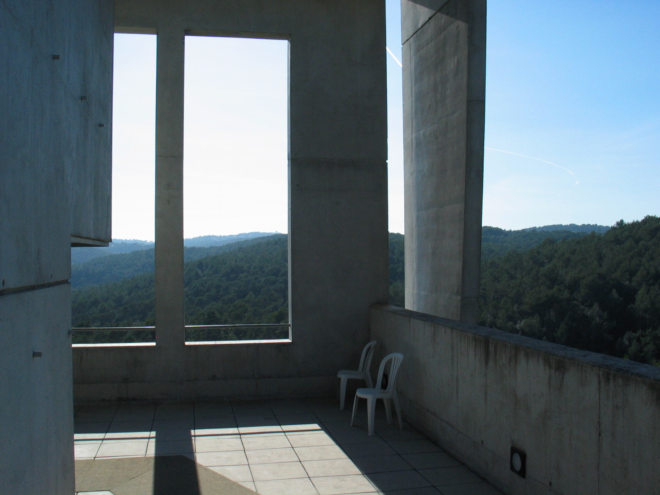 View from part of the Institut national de recherche en informatique et en automatique (INRIA), Sophia Antipolis (Valbonne, France) February 2007